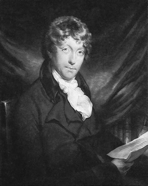 Mezzotint of Sir William Garrow, published on March 24, 1810; item is now in Harvard Law School Library 00.1286 under the identifier olvwork178120